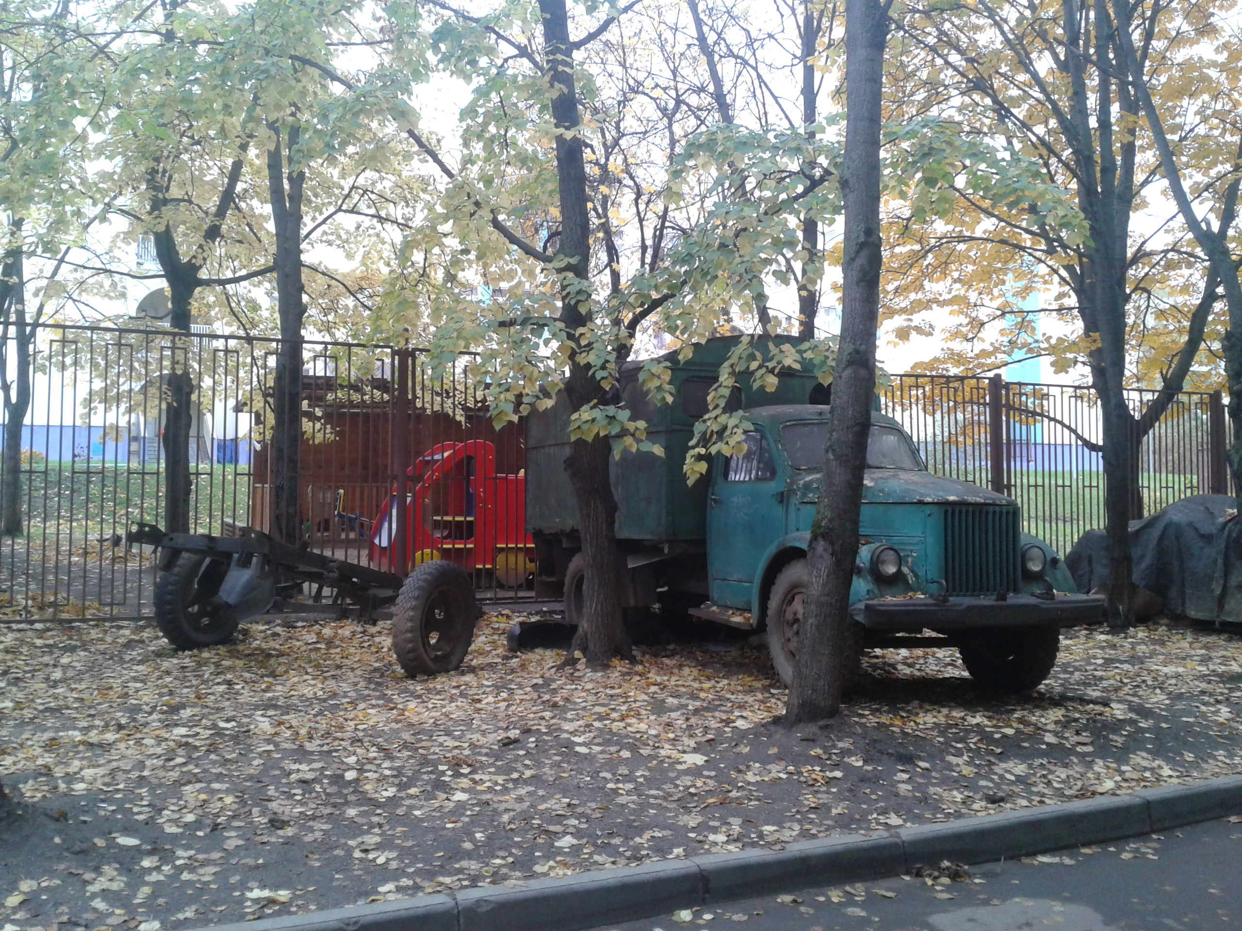 GAZ-51 in Moscow.